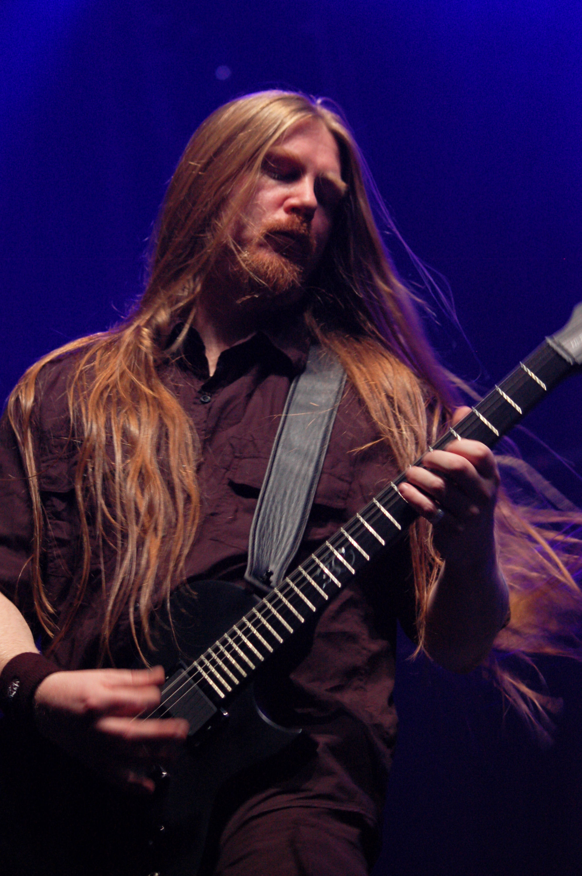 Andrew Craighan from My Dying Bride during Metalmania 2007 festival